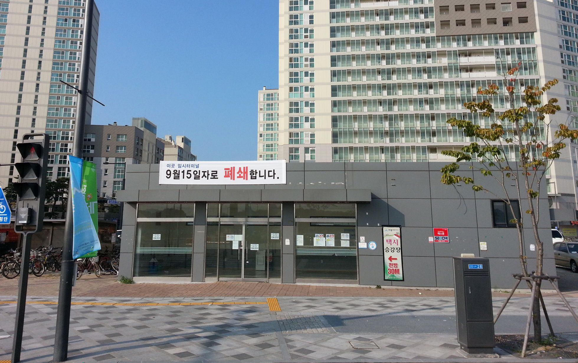 Defunct Terminal Building in Hansol-dong(Cheotmaeul), Sejong, South Korea The terminal remained functional until 15 Sep 2014.